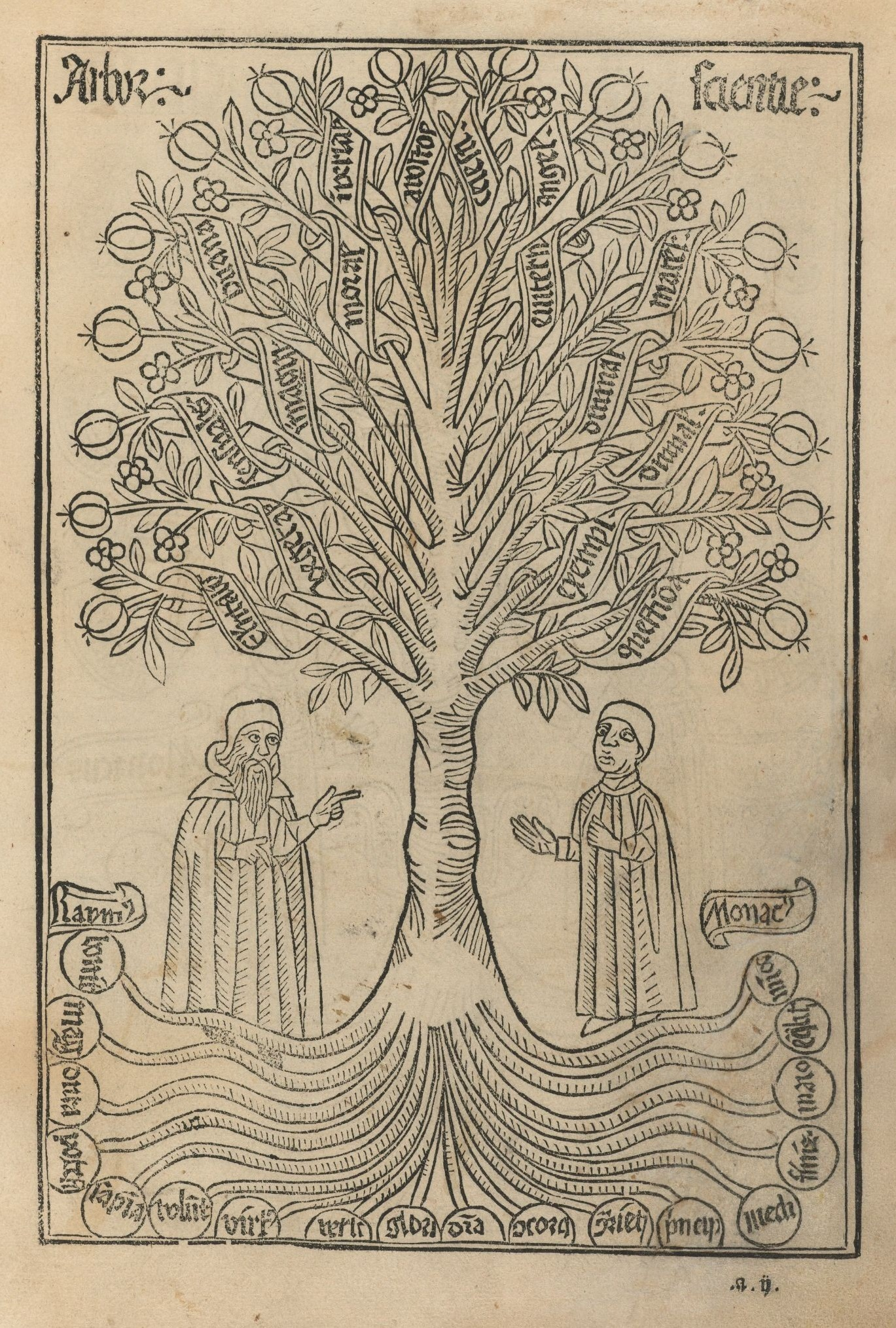 Image from a 1505 edition of Arbre de ciència by Ramon Llull (1232?-1316). Printed in Barcelona. *SC.L9695.482ab, Houghton Library, Harvard University